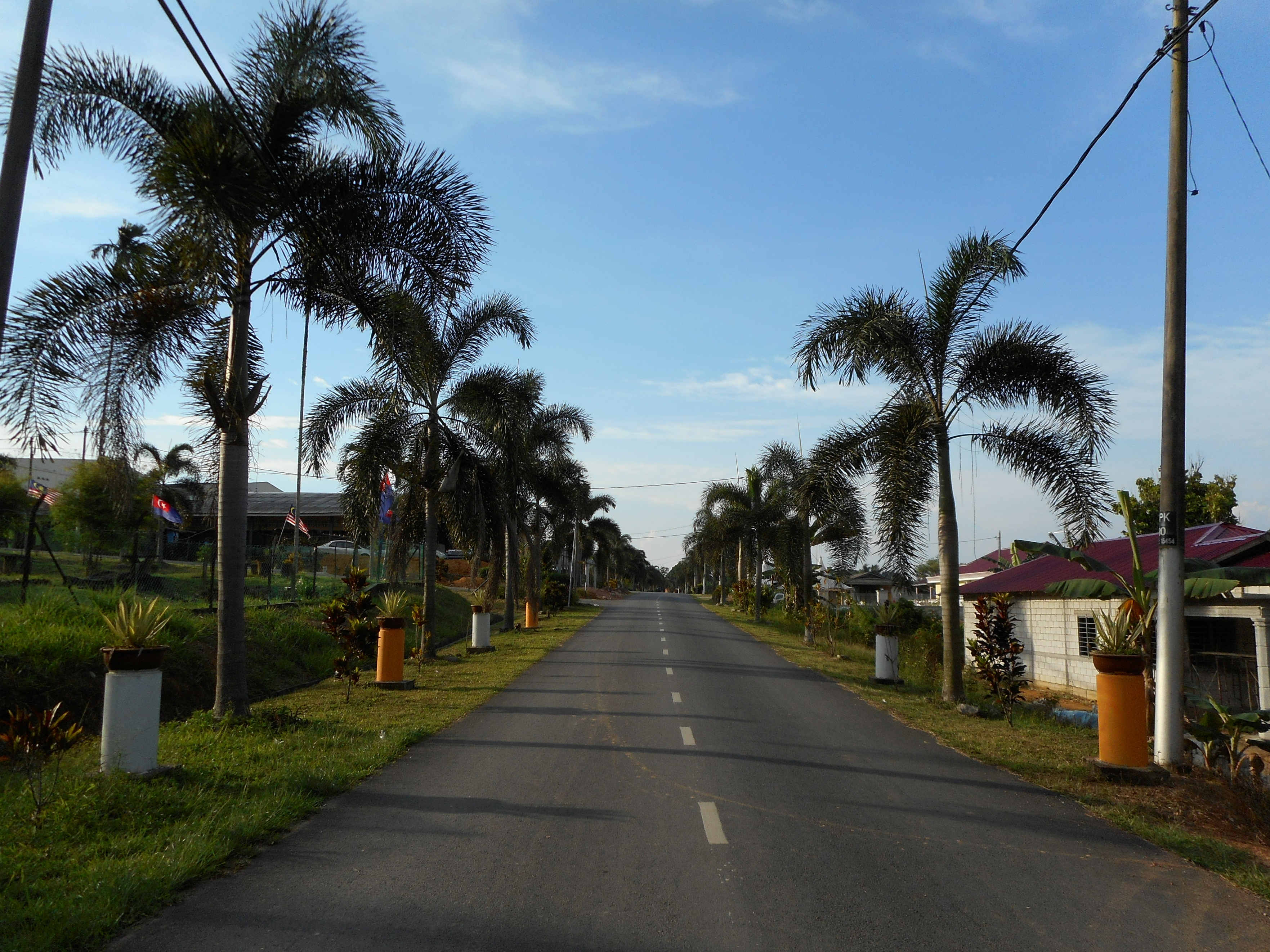 FELDA Bukit Batu, Kulai, Johor, Malaysia